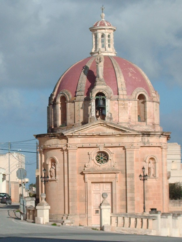 Bidnija church 2009